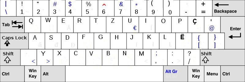 albanian keyboard for the Keyboard layout article